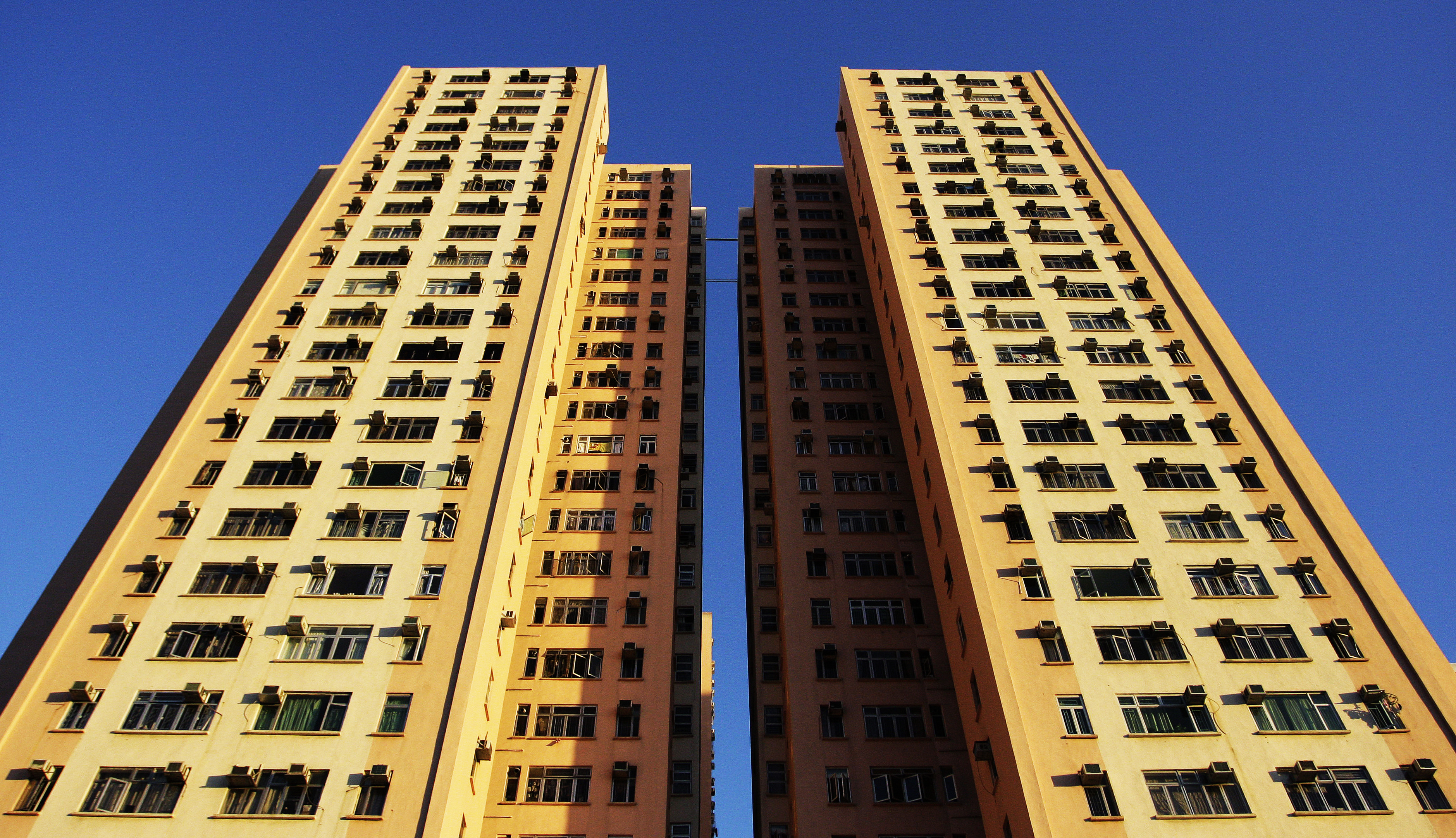 Telford Gardens